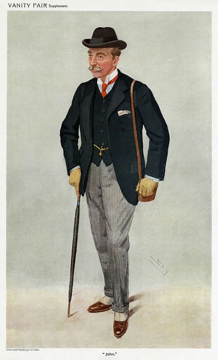 Men of the Day No.1171: Caricature of Mr John Reid Walker. Caption reads: "John"